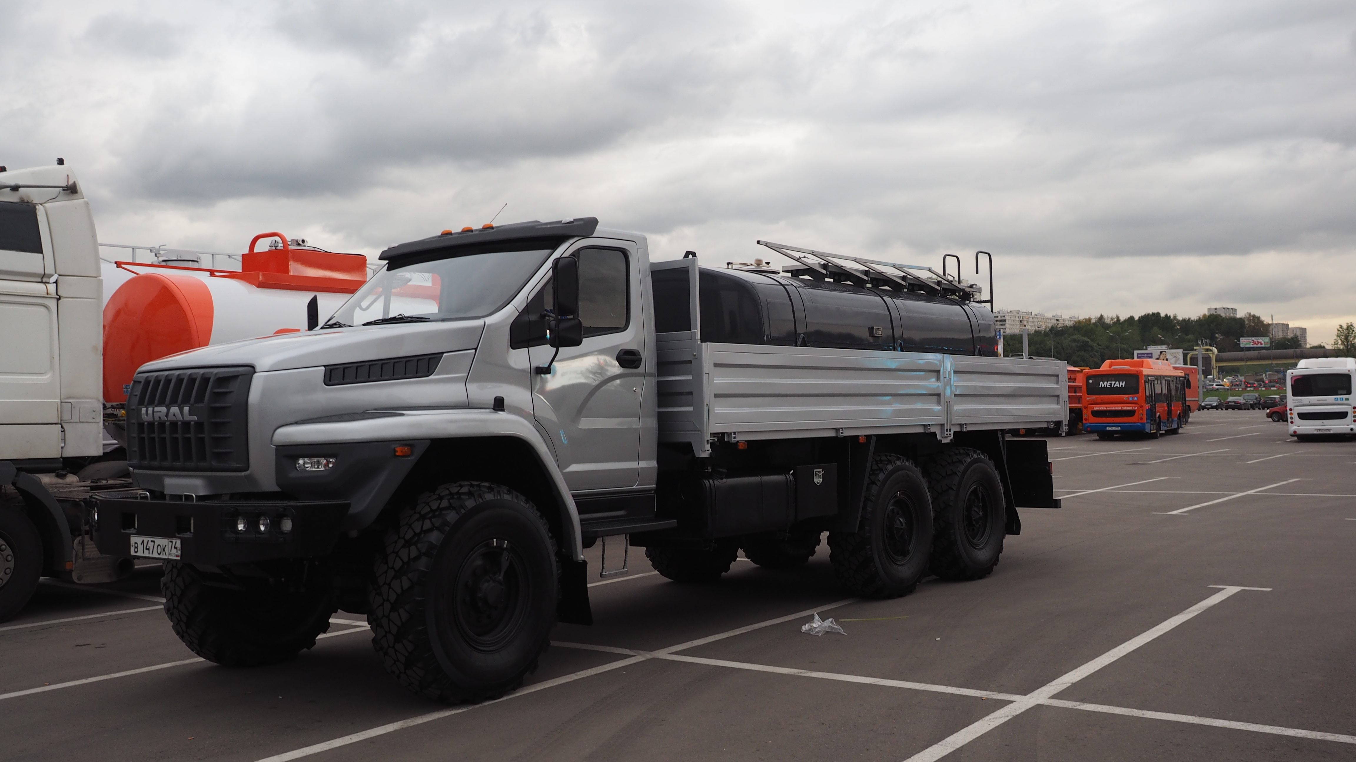 Ural Next flatbed truck